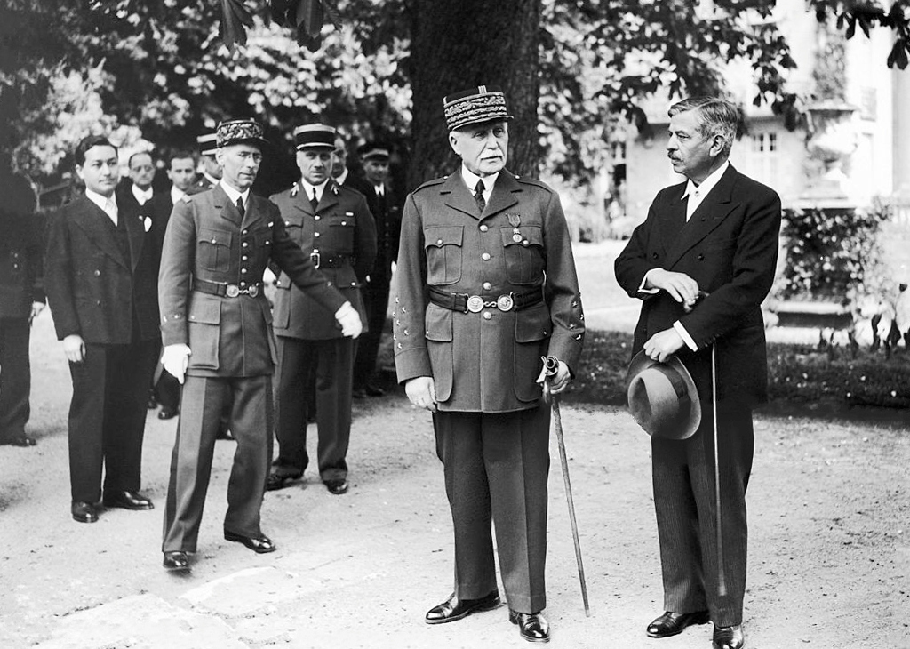 Marshal Petain And Pierre Laval In The Park Of The Sevigne Pavillion In Vichy Around 1942